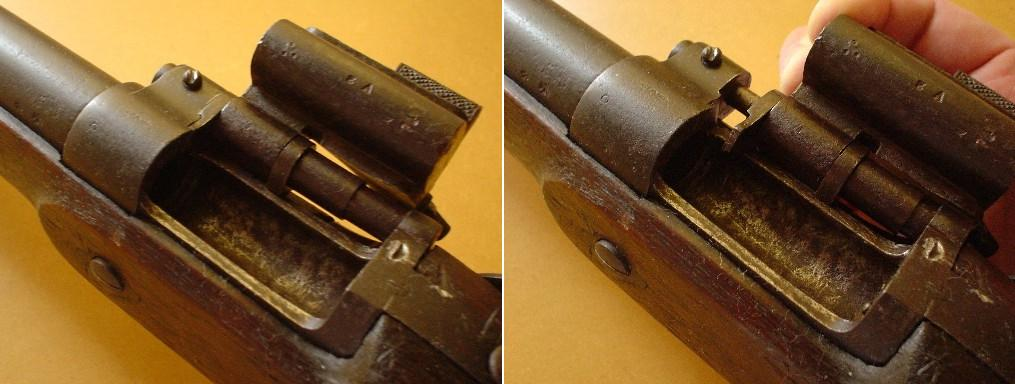 Breach open and Cartridge Extractor retraction of the Snider-Enfield.